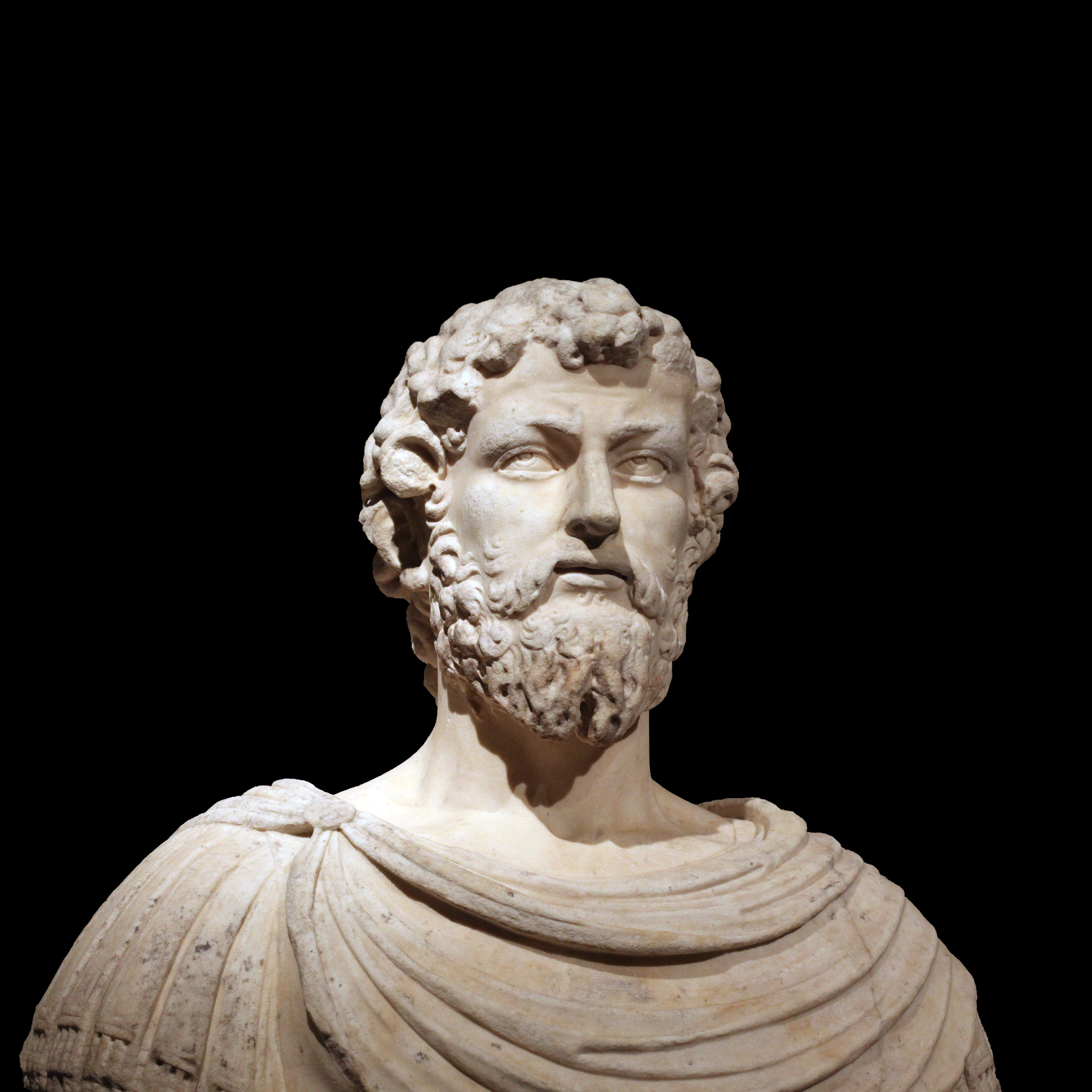 White marble bust of Antoninus Pius. Made near Rome circa 140 CE. Purchased by Lyon museums in the 19th century, restored in 2010 while lent to Dijon museum. On display at the Gallo-Roman Museum of Lyon.